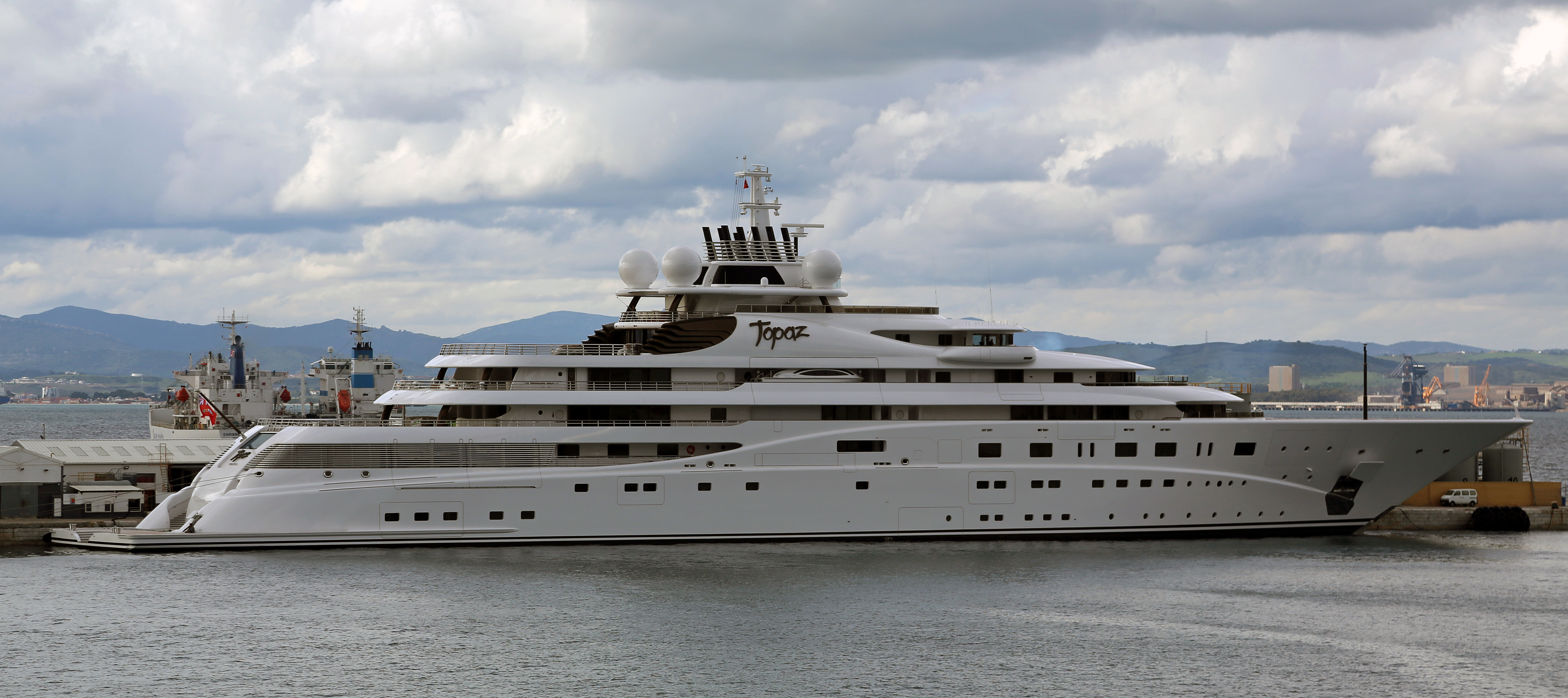 M/Y Topaz is a 147 m motor yacht making it the ninth-largest Superyacht in the world. It was custom built in 2012 by Lurssen Yachts in Bremen, Germany and registered in the Cayman Islands. M/Y Topaz has a steel hull with an aluminium superstructure.